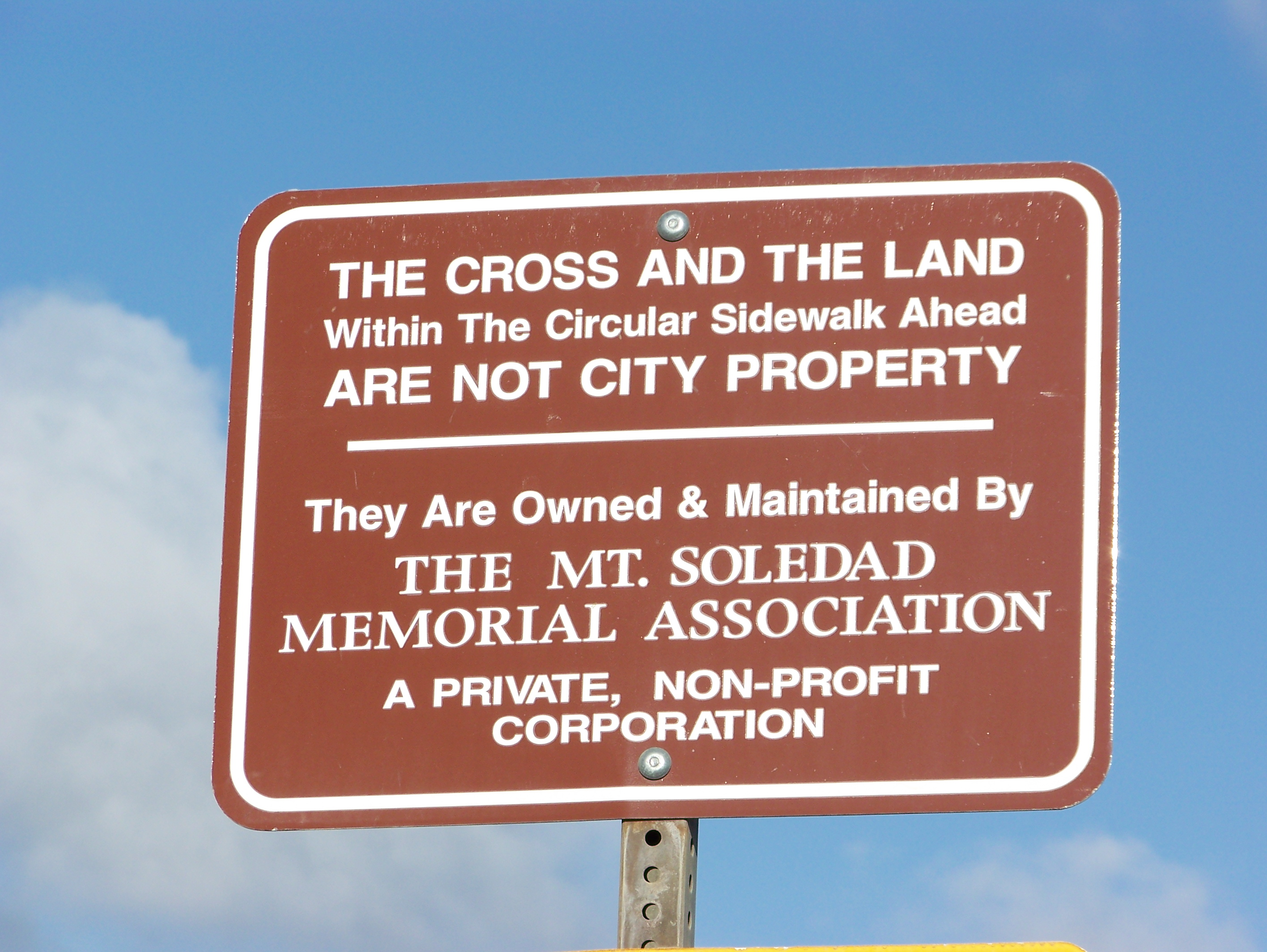 A sign at the front entrance of Mount Soledad in San Diego, California. Image taken on January 20, en:2007 by Nehrams2020.